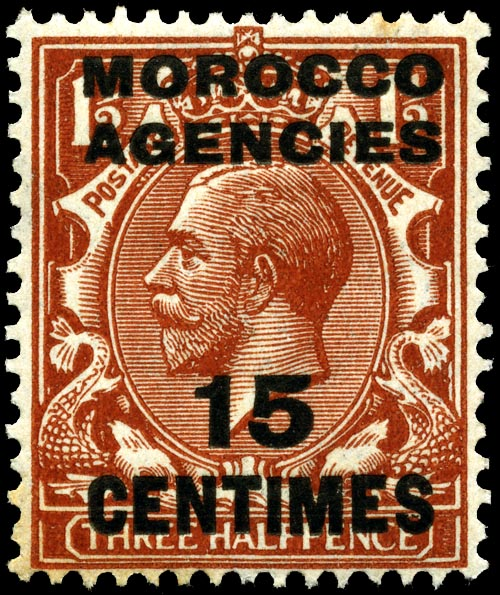 United Kingdom offices in Morocco 15-centime stamp of 1917